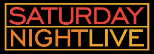 Logo of the NBC comedy/variety show Saturday Night Live.